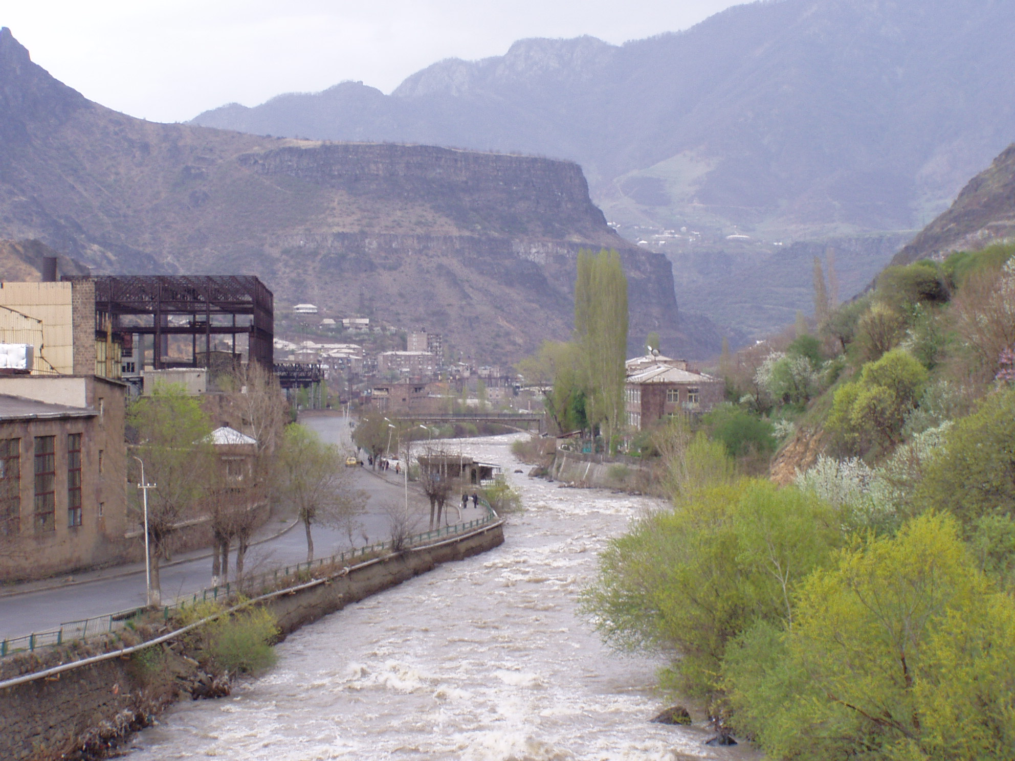 Alaverdi town. River Debed.